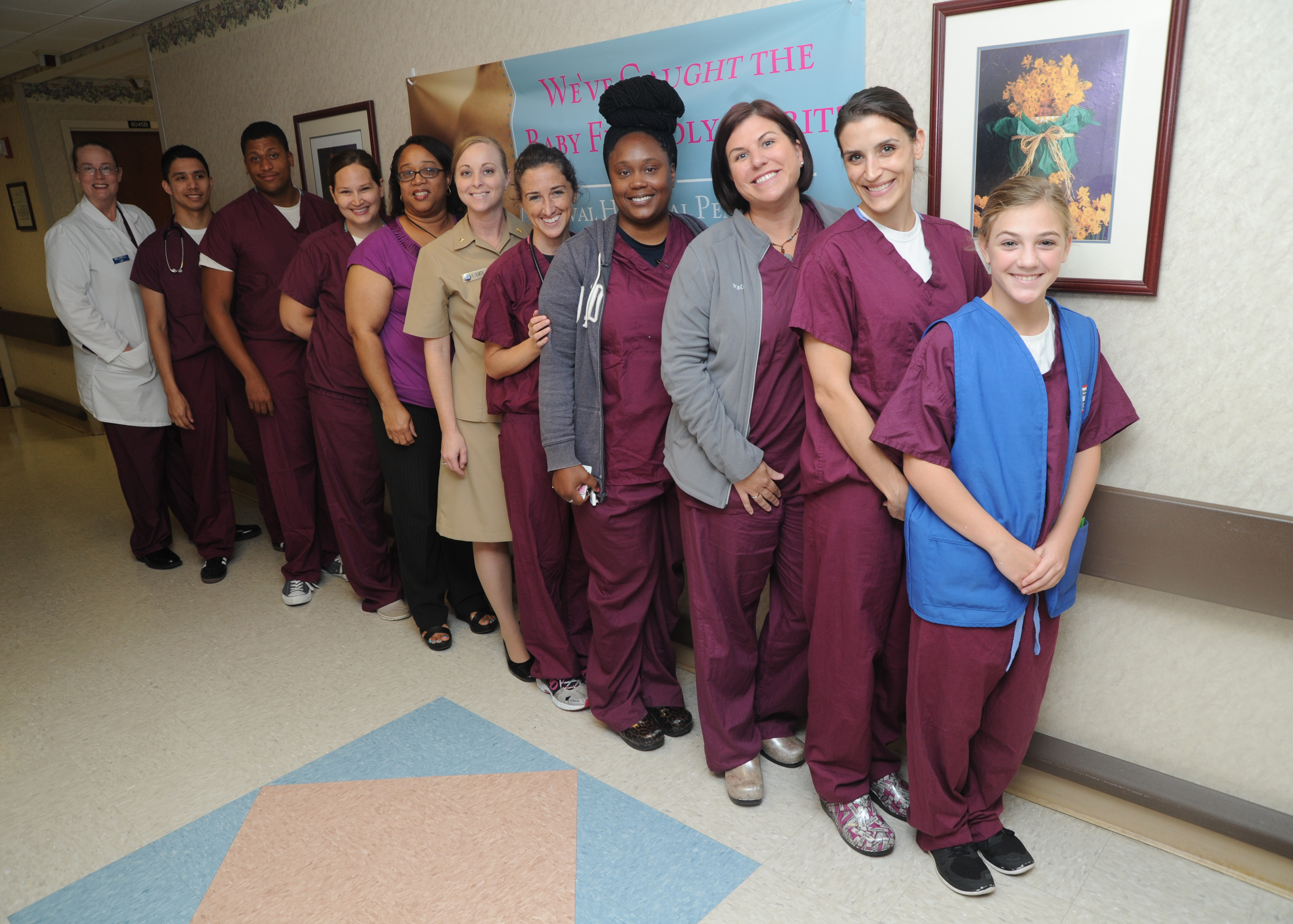 The entire staff of Naval Hospital Pensacola's Women and Children Department is committed supporting mothers wishing to breastfeed. Naval Hospital Pensacola has one of the highest exclusive breastfeeding rates within the Department of Defense.